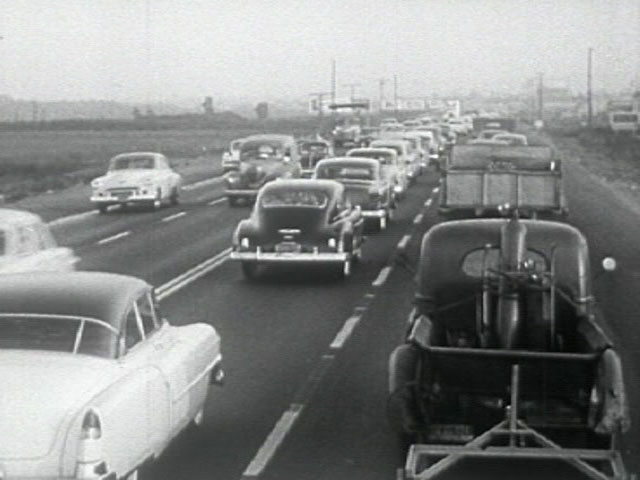 This is the old Bayshore Highway, now the Bayshore Freeway, at an unknown location on the San Francisco Peninsula, California. It was known locally as "Bloody Bayshore" because of the high frequency of crashes.